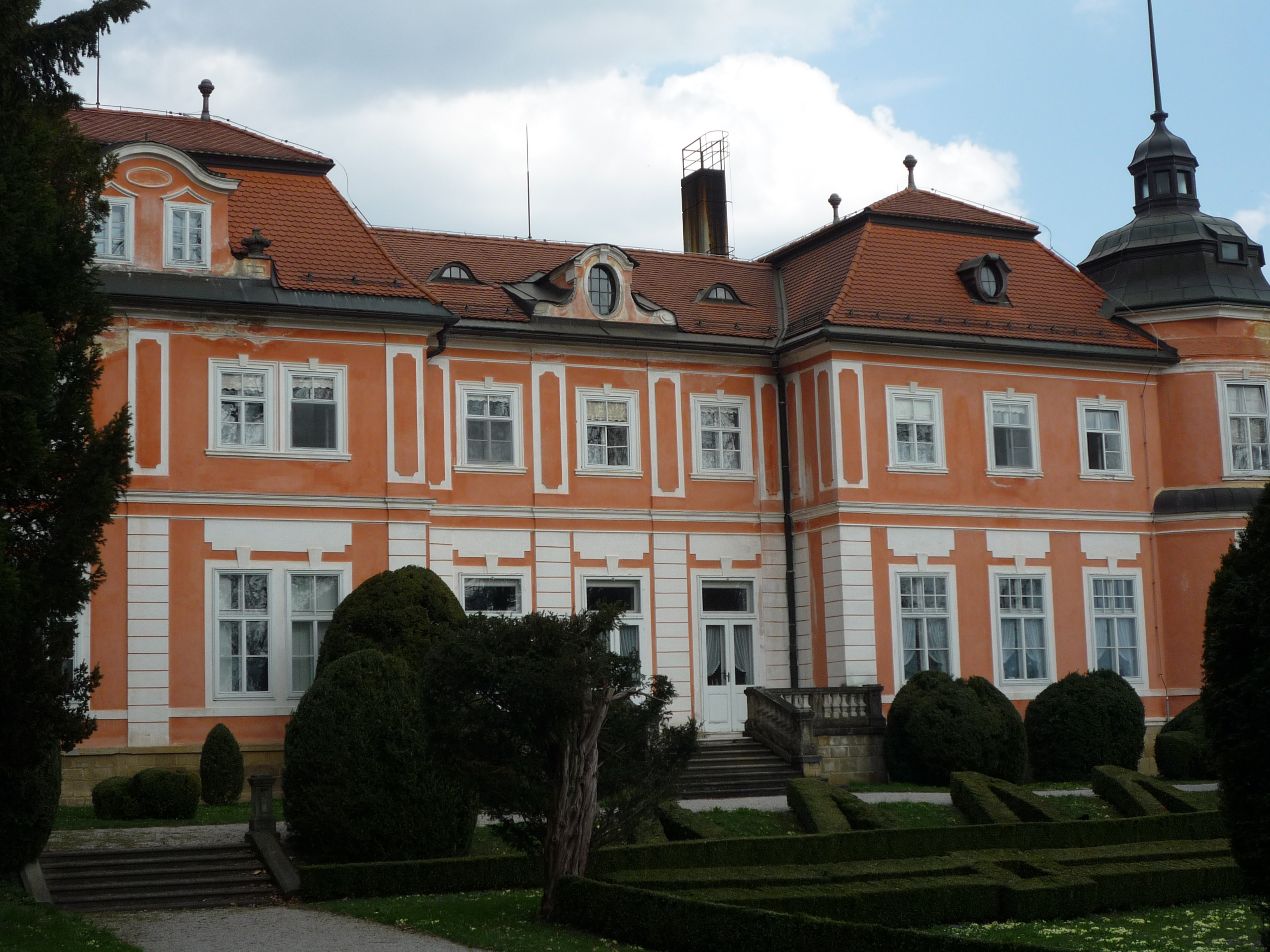 Mansion Šenek in Polzela, Slovenia. The manor lies on small hill and it has a park, where trees from many parts of Europe are gathered.